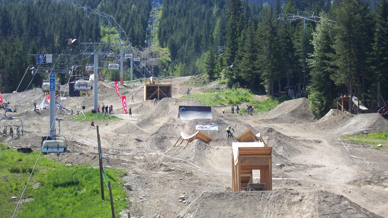 The Boneyard, June 15, 2008 During Whistler Air Affair comp.